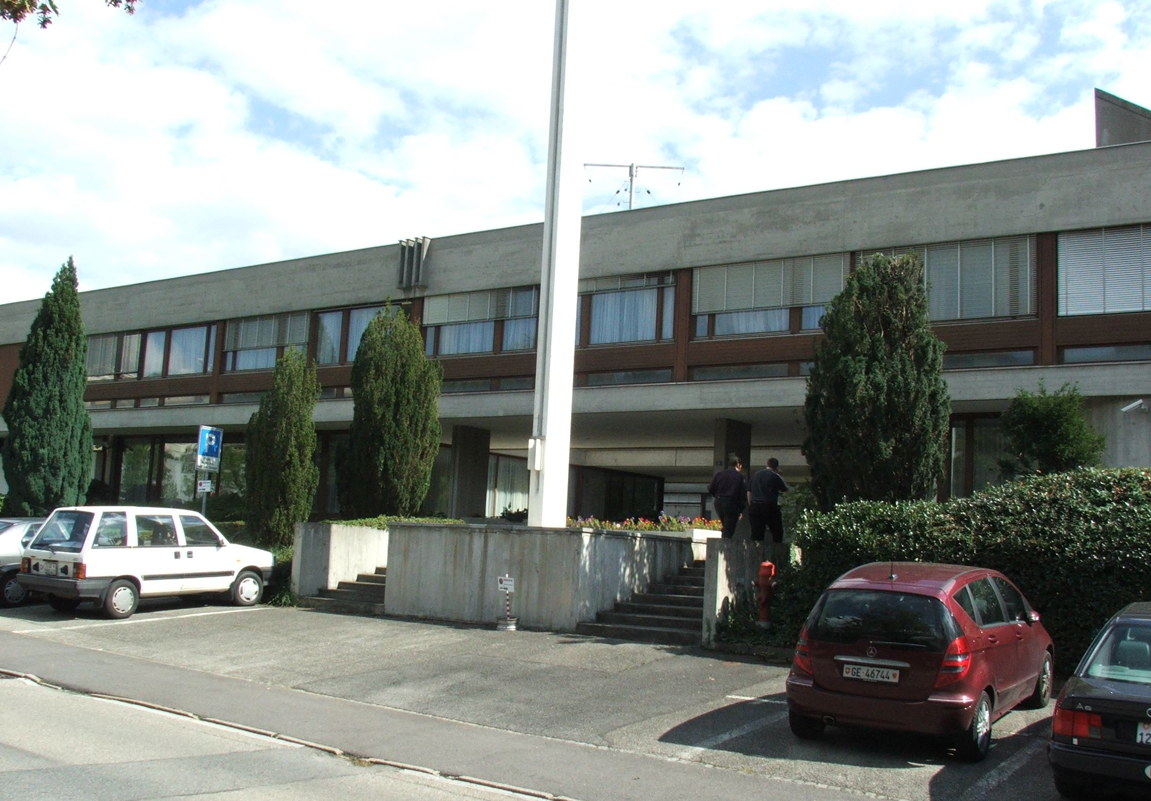 Permanent Mission of Slovakia to the UN in Geneva, Switzerland. Former building of Czechoslovak mission to the UN is located in front of the Permanent mission of Poland.